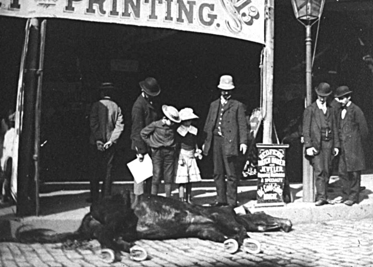 A horse lying on its side 45 minutes after being shot by a police officer for having the glanders; people are being kept away from it for fear they would catch it.